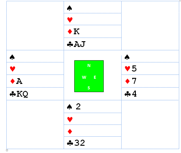 a simple hand describing Squeeze play in Bridge